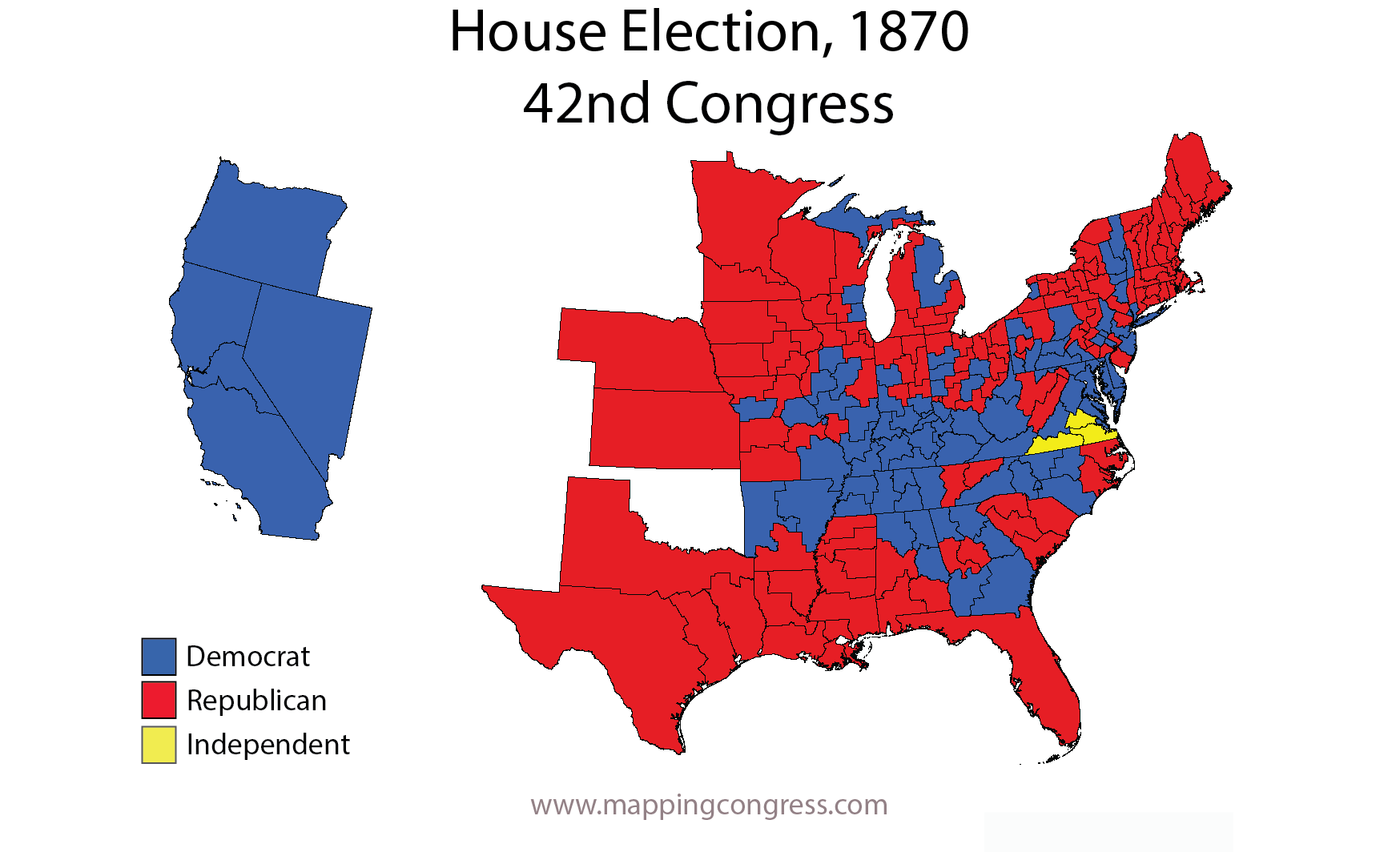 Map of U.S. House elections results from 1870 elections for 42nd Congress